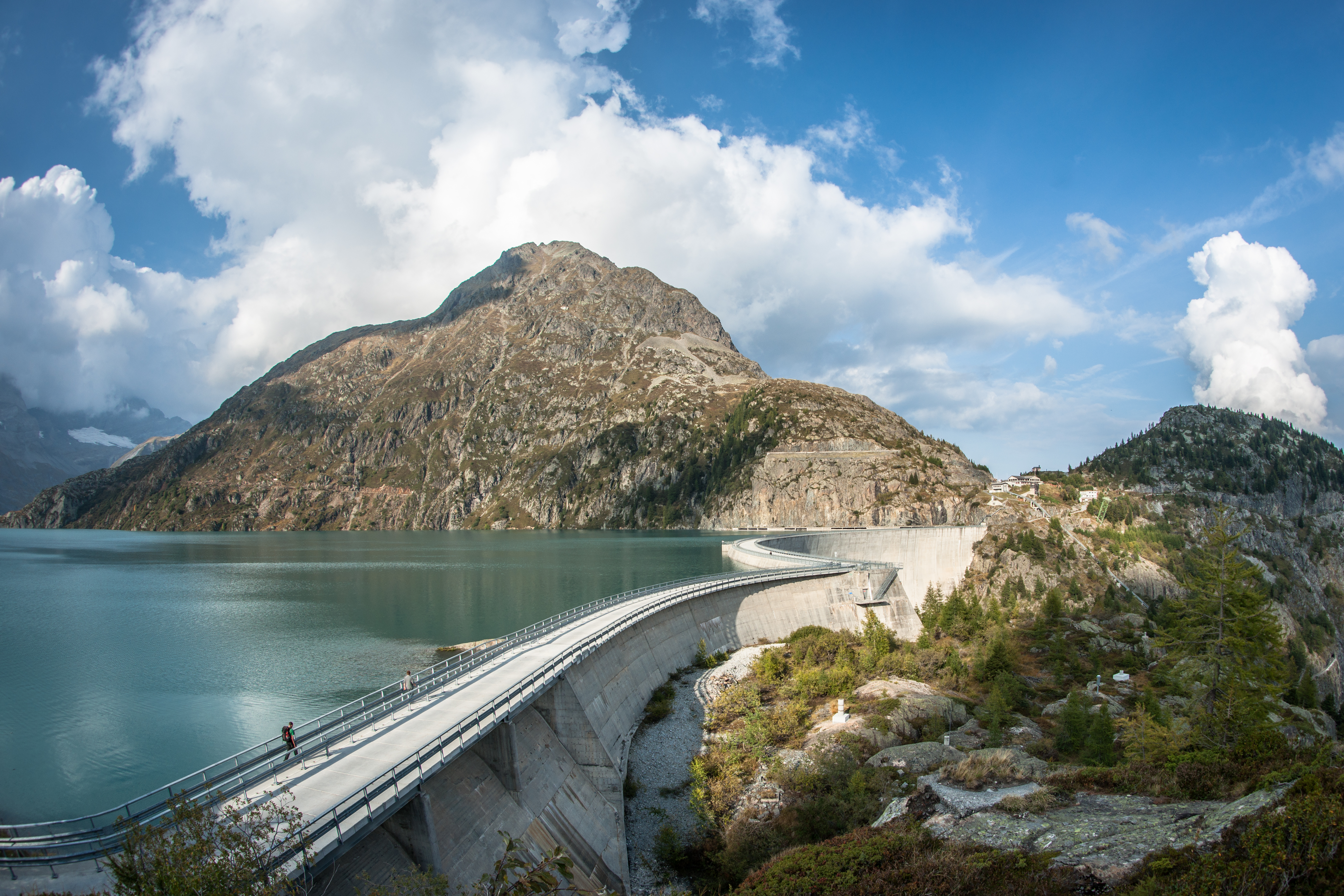 Emosson dam and lake